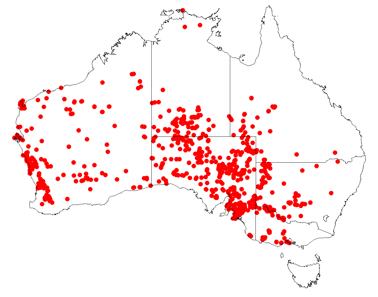 Australian distribution of Amyema preissii based on download from Australasian Virtual Herbarium May 9, 2018